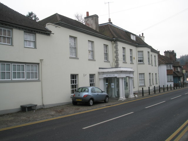 My very first school trip was to this Museum in 1968.